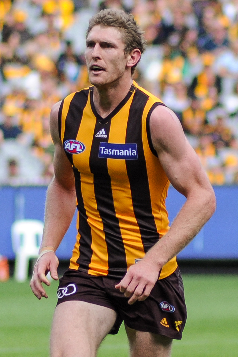 Ben McEvoy during the AFL round two match between Hawthorn and Adelaide on 1 April 2017 at the Melbourne Cricket Ground in Melbourne, Victoria.